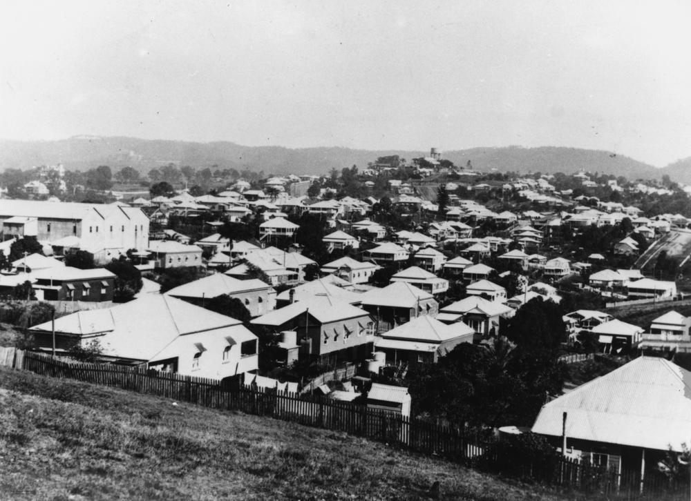 Suburb of Paddington, Brisbane, 1929. View of the houses of Paddington, Brisbane, taken from Enoggera Terrace looking towards Latrobe Terrace.The Paddington Tram Depot is visible on the left.